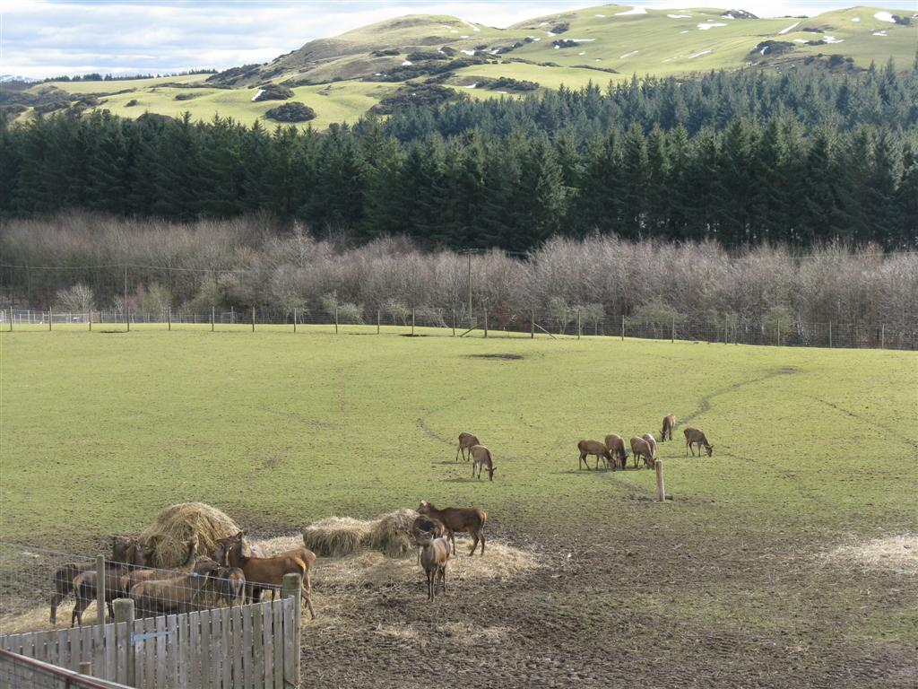 Deer feeding at Beecraigs Part of the Beecraigs Country Park, with the Riccarton Hills beyond.